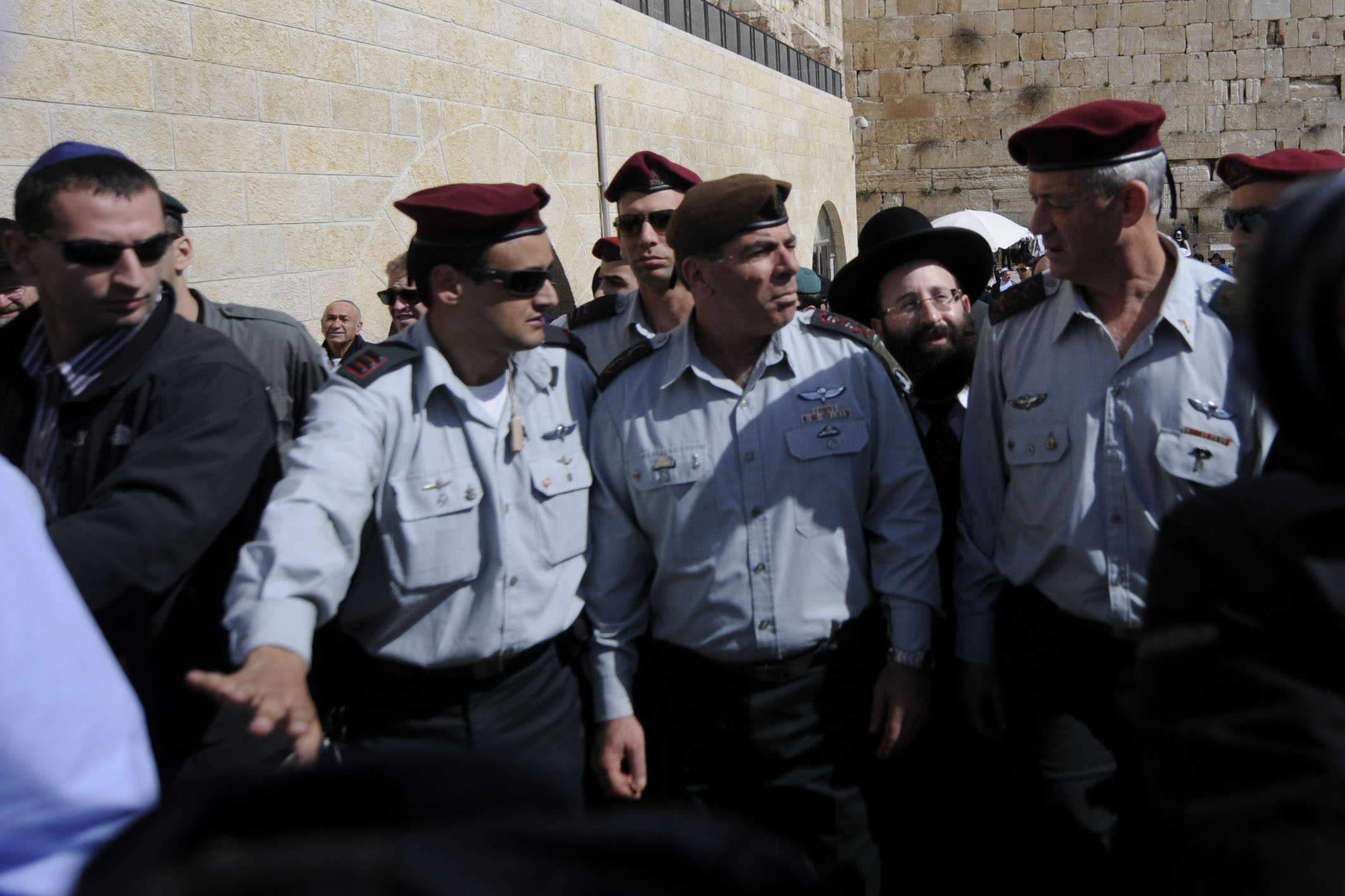 The outgoing IDF Chief of the General Staff, Lt. Gen. Gabi Ashkenazi, and the incoming Chief of the General Staff, Lt. Gen. Benny Gantz, visit the Western Wall as part of the inauguration and parting ceremonies for the two Lt. Generals. Lt. Gen. Gantz received the rank of Lieutenant General today at a national ceremony held in the Prime Minister's office, and later received an honorary guard ceremony at IDF headquarters in Tel Aviv.